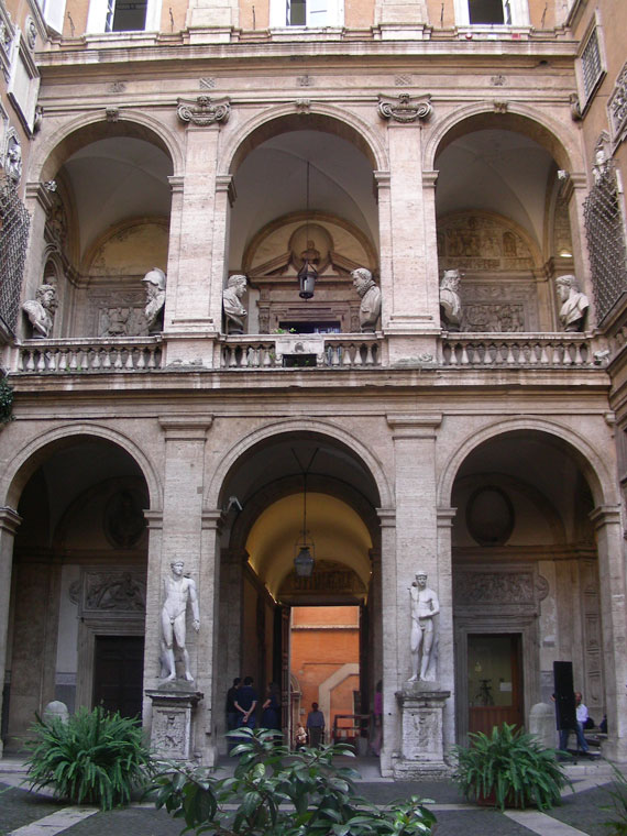 Rome, Palazzo Mattei Di Giove, court